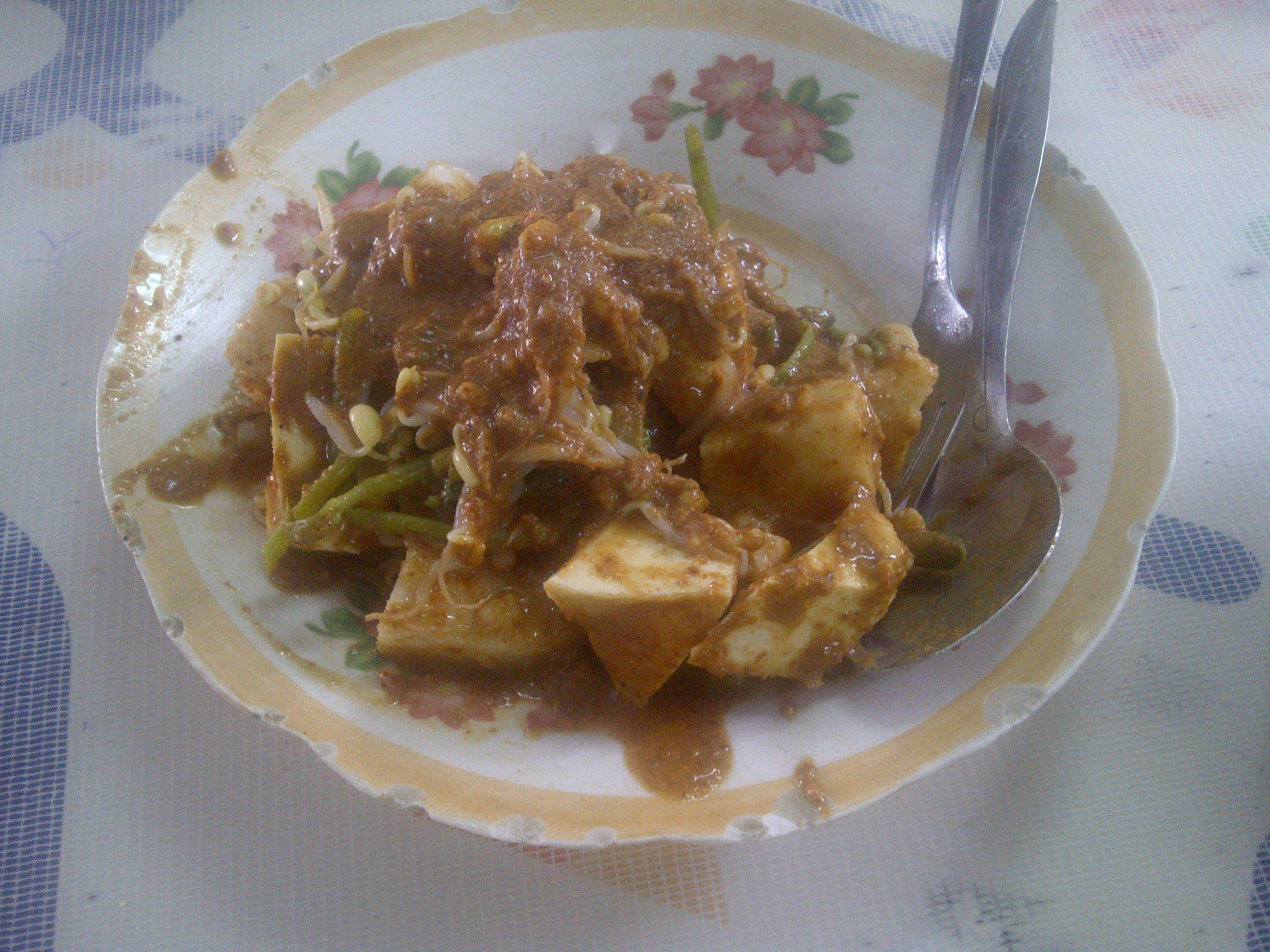 Tipat, Balinese salty vegetables salad with lontong